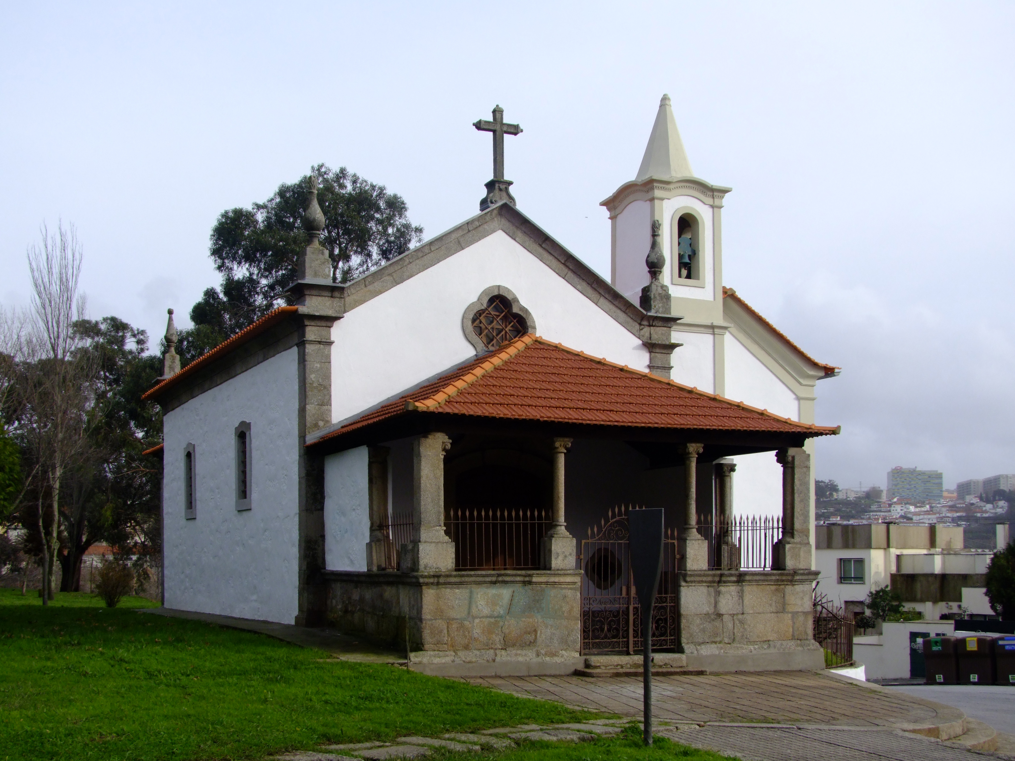 Senhor e Senhora da Ajuda Chapel, Lordelo do Ouro, Porto, Portugal.